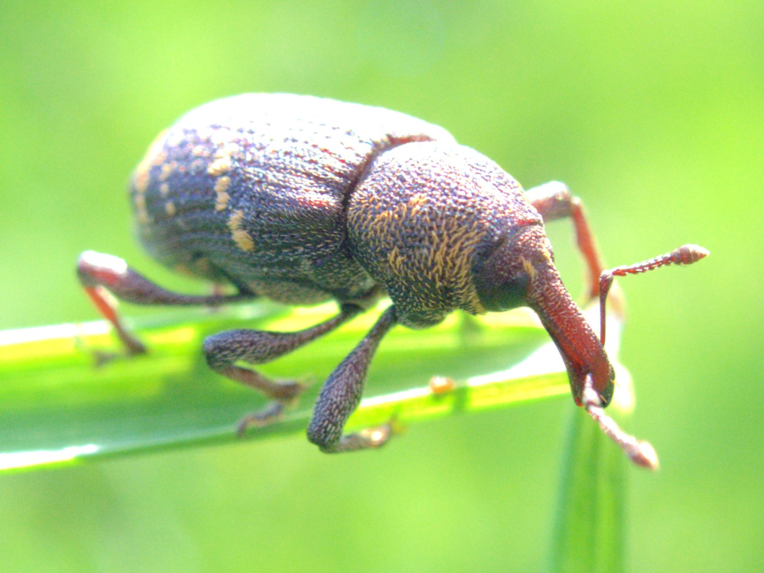 Name: Hylobius abietis. Family: Curculionidae. Location. Münster, NRW, Germany